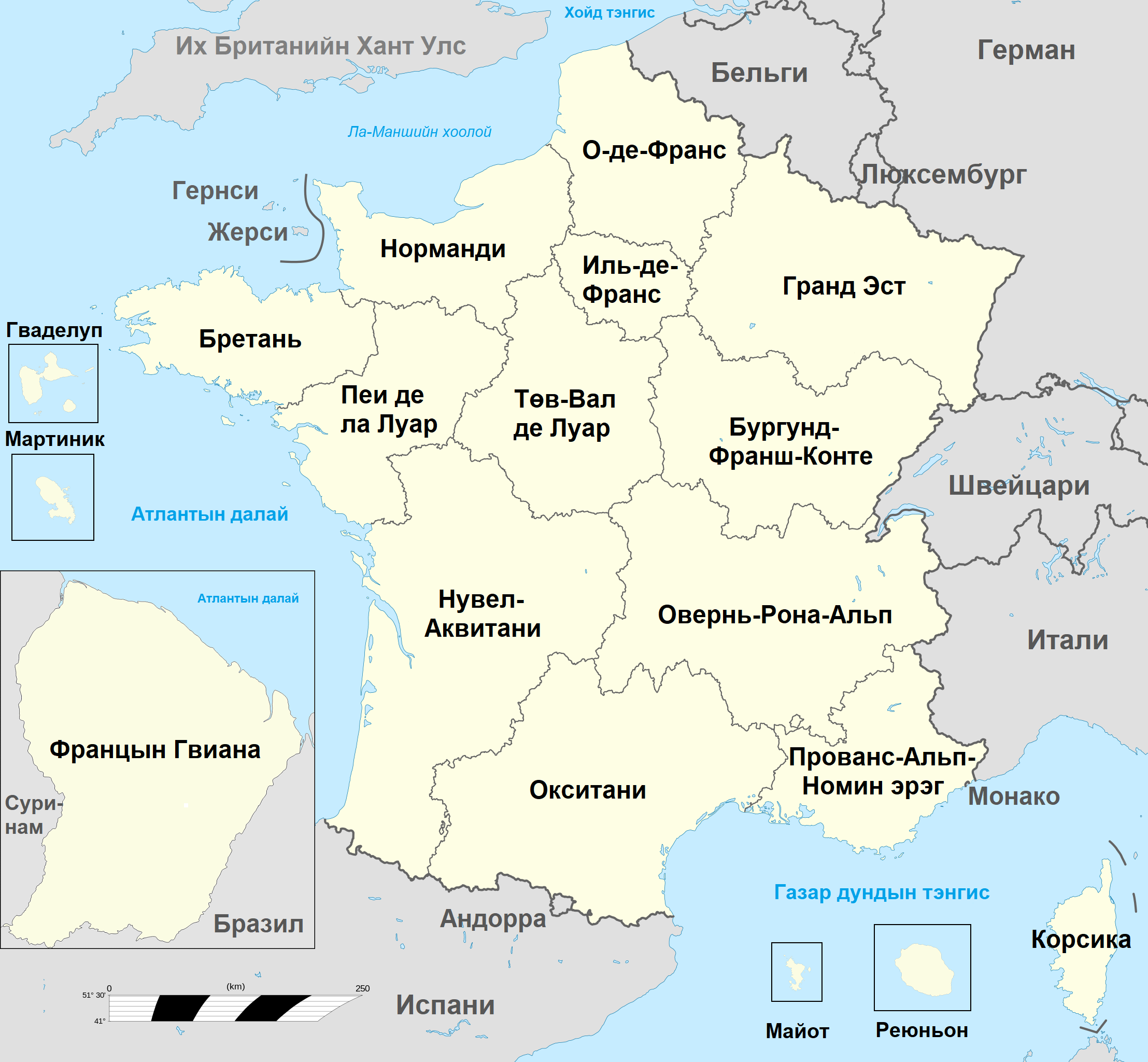 Map of France